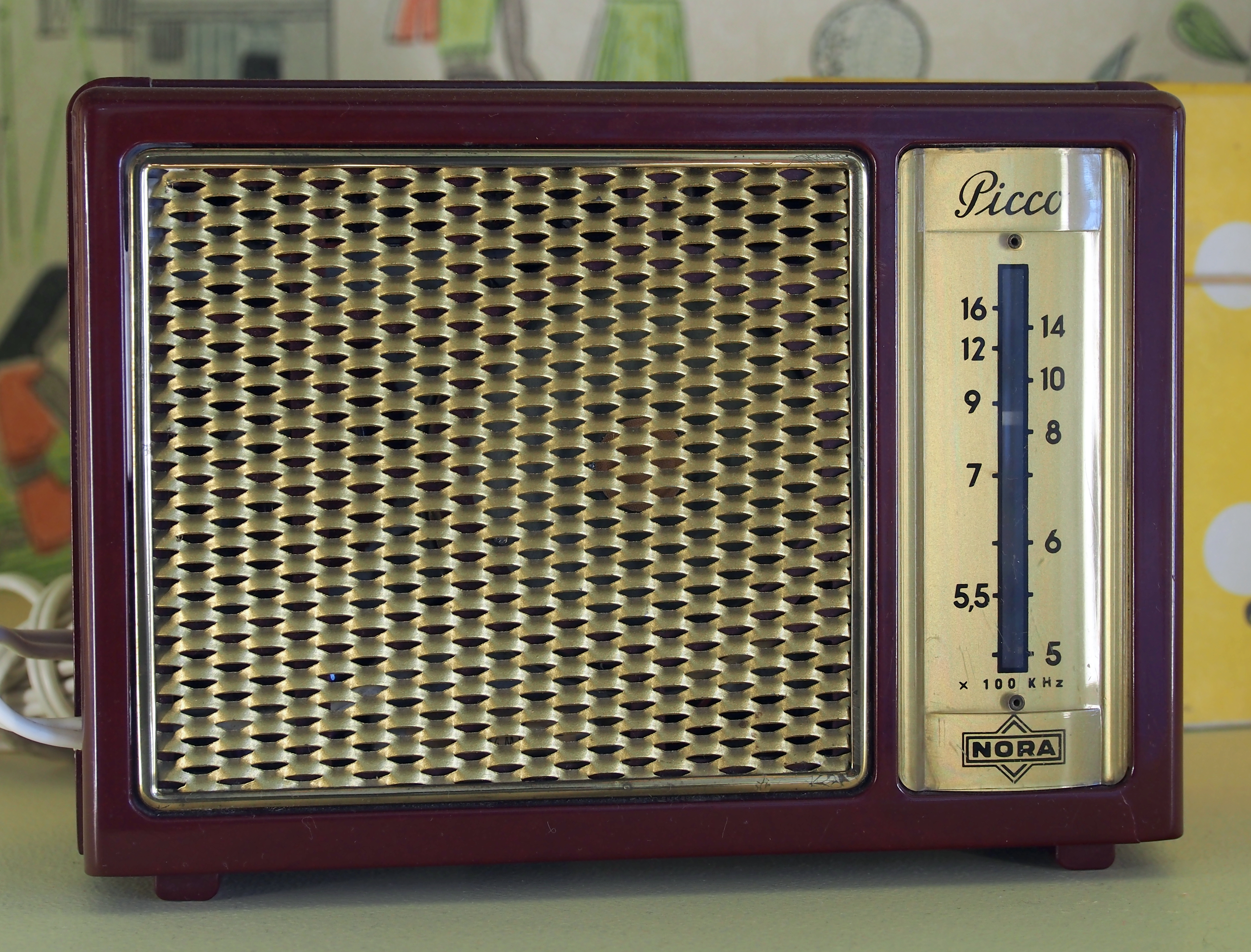 Photographed at the Auto & Uhrenwelt Schramberg museum.